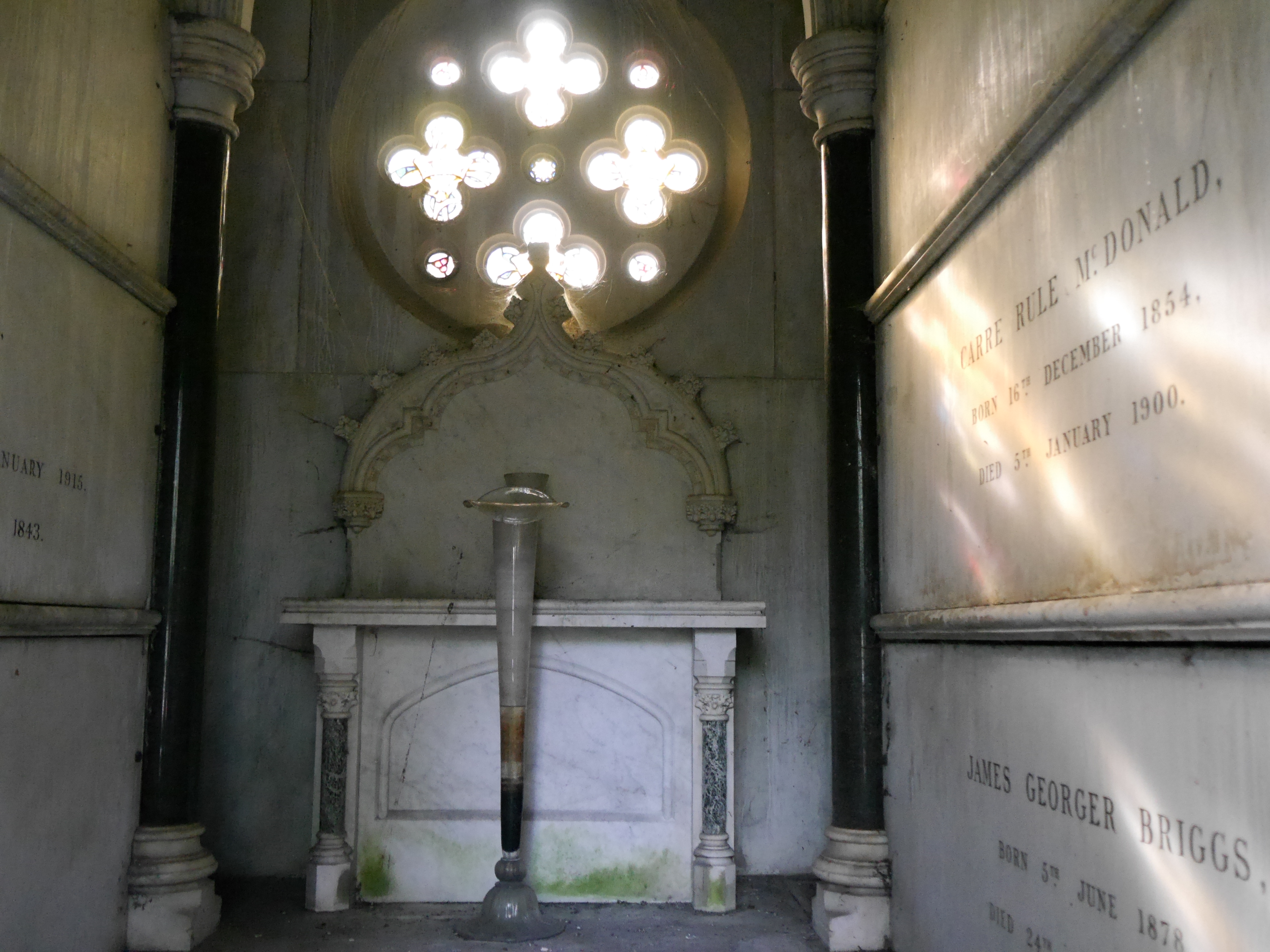 Brompton Cemetery, London